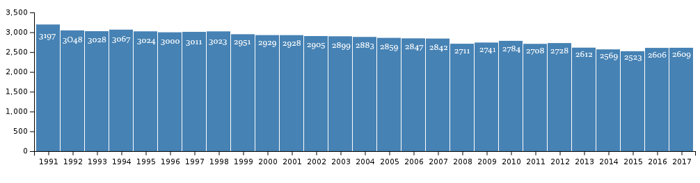 Population of Greenlandic town Maniitsoq in 1991-2017